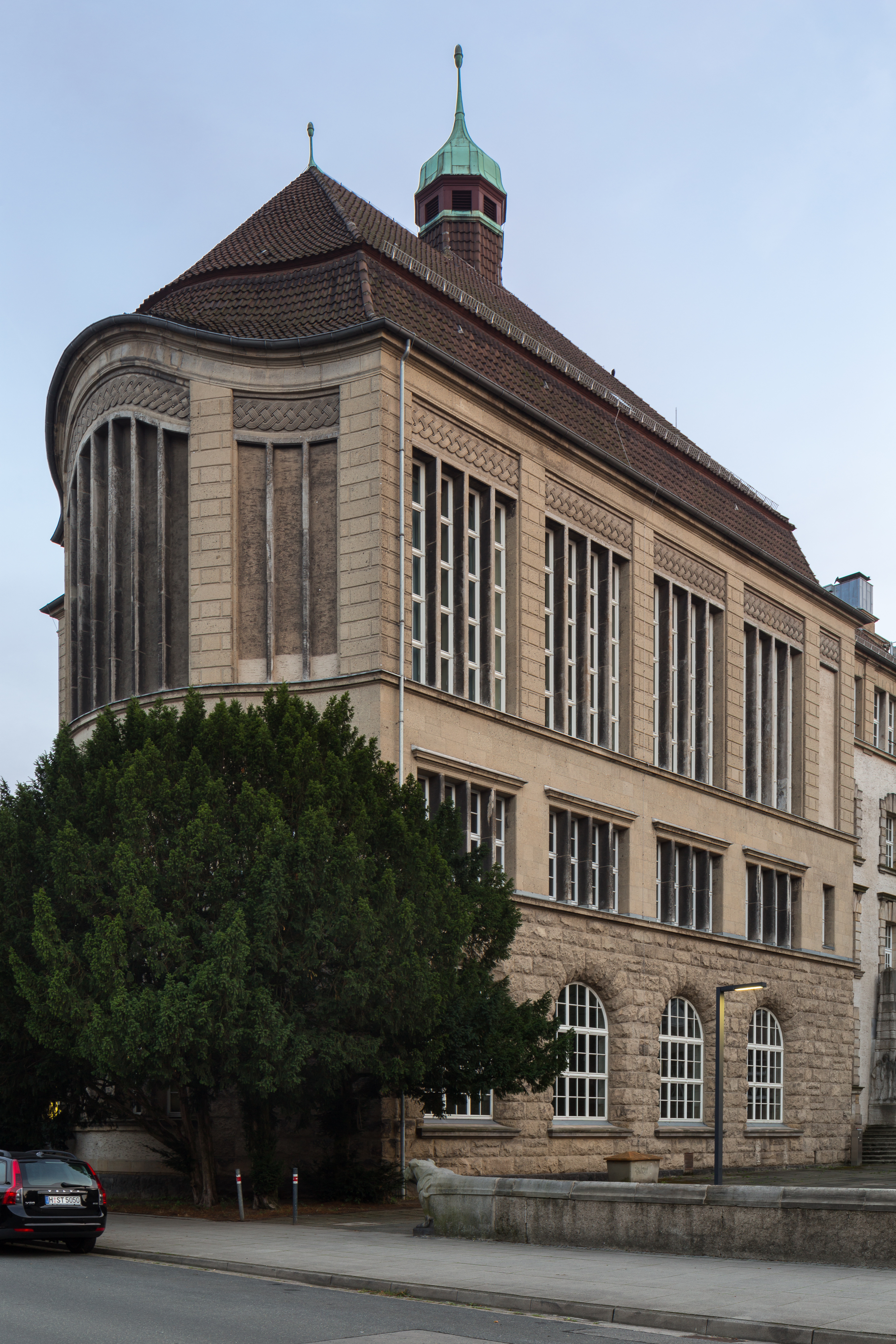 Bismarckschule school located at An der Bismarckschule in Suedstadt quarter of Hannover, Germany.